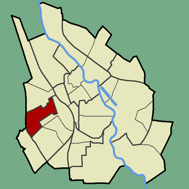 Locator map of Maarjamõisa, Tartu, Estonia.